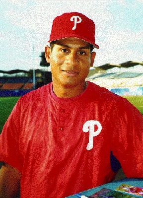 Bob Abreu with the Philadelphia Phillies